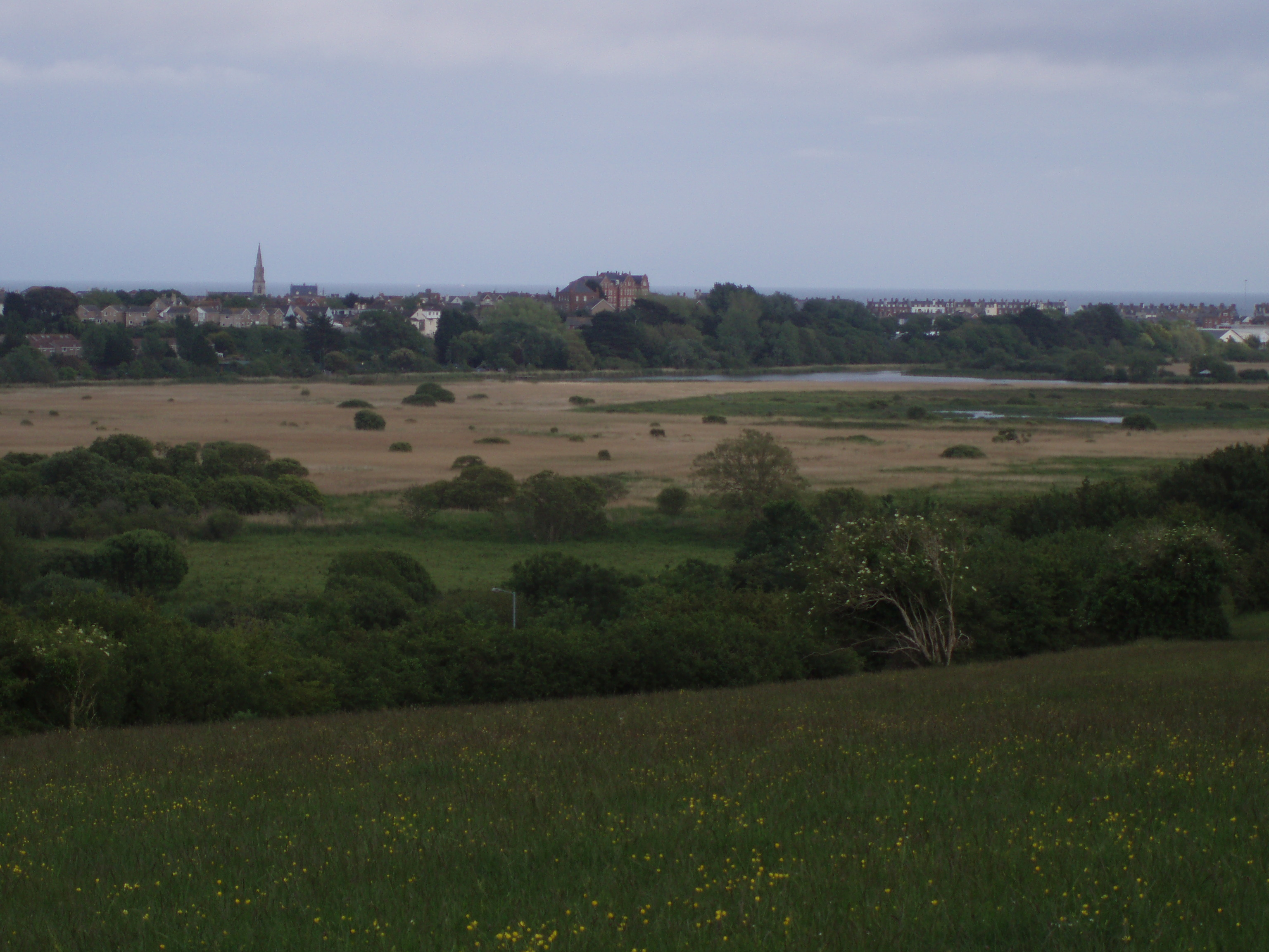 G N Frykman, private photograph of Radipole Lake, Weymouth viewed from Southill.